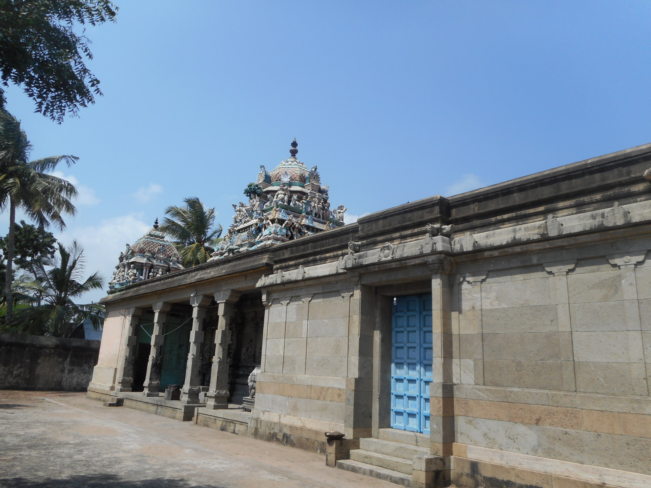 Agastianpalli temple அகத்தியான்பள்ளிகோயில்